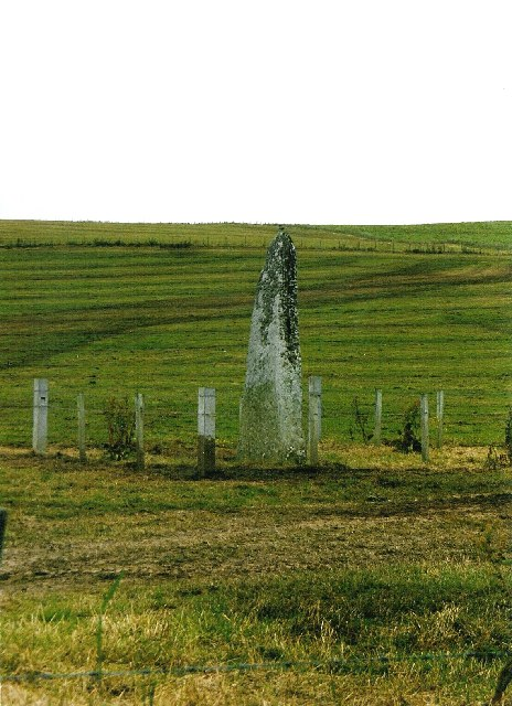 Standing stone at Birsay. I think this is the Stone of Quoybune - reputed to walk down to the Boardhouse Loch at New Year for a drink. Perhaps someone's hoping the fence around it will keep it from walking this year...